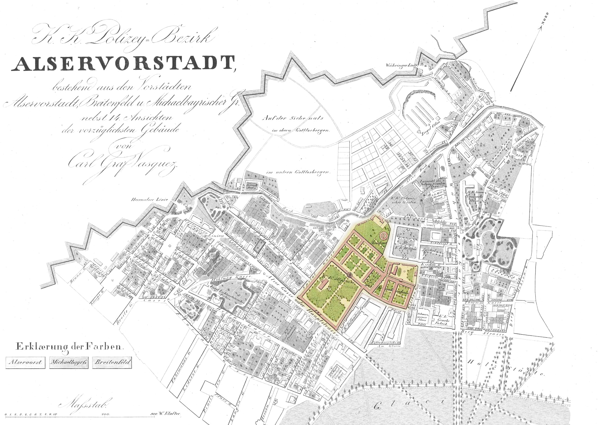 Map of Vienna / AKH, approx. 1830